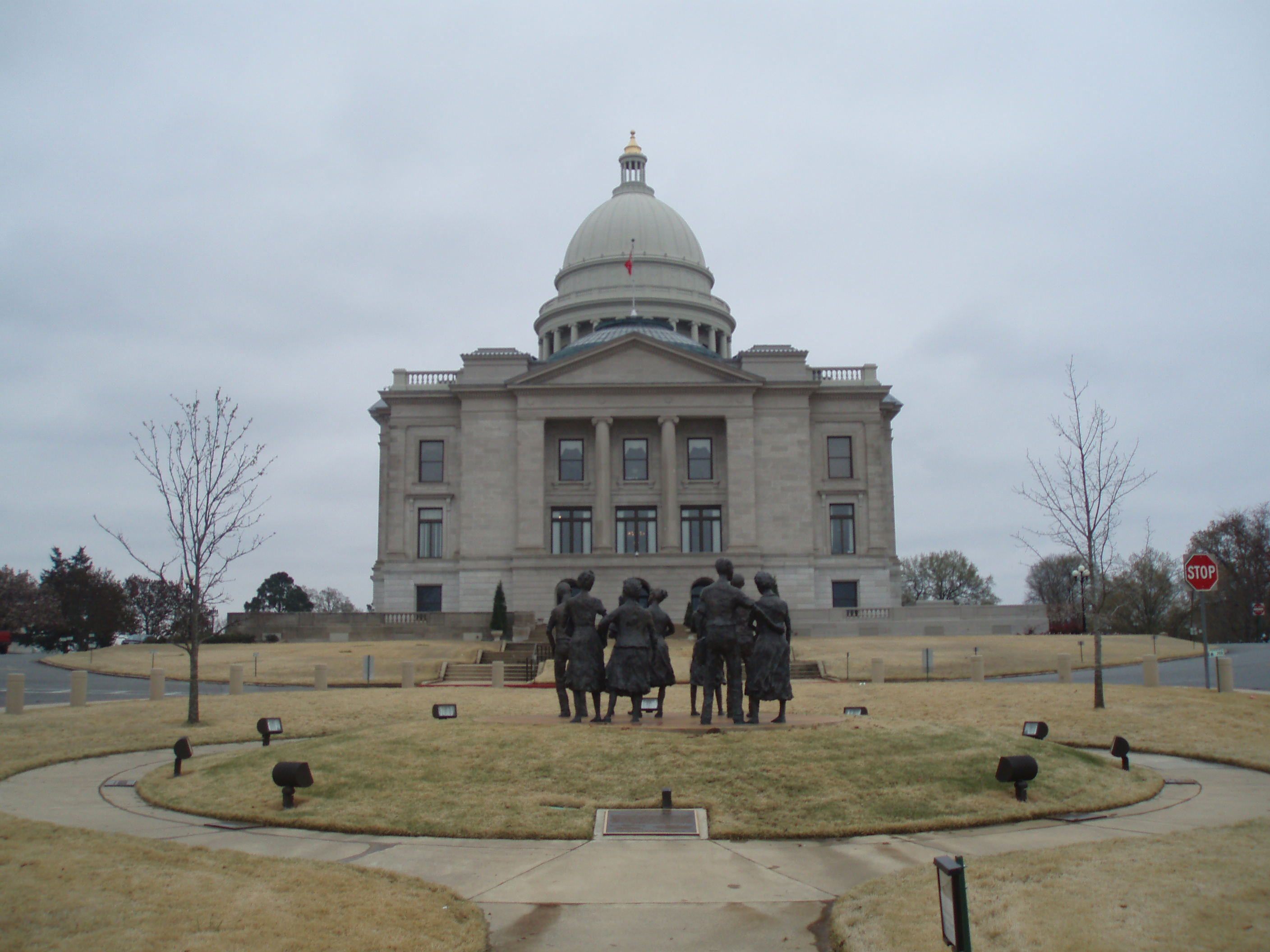 Arkansas Little Rock Nine Civil Rights Memorial on the capitol grounds in Little Rock